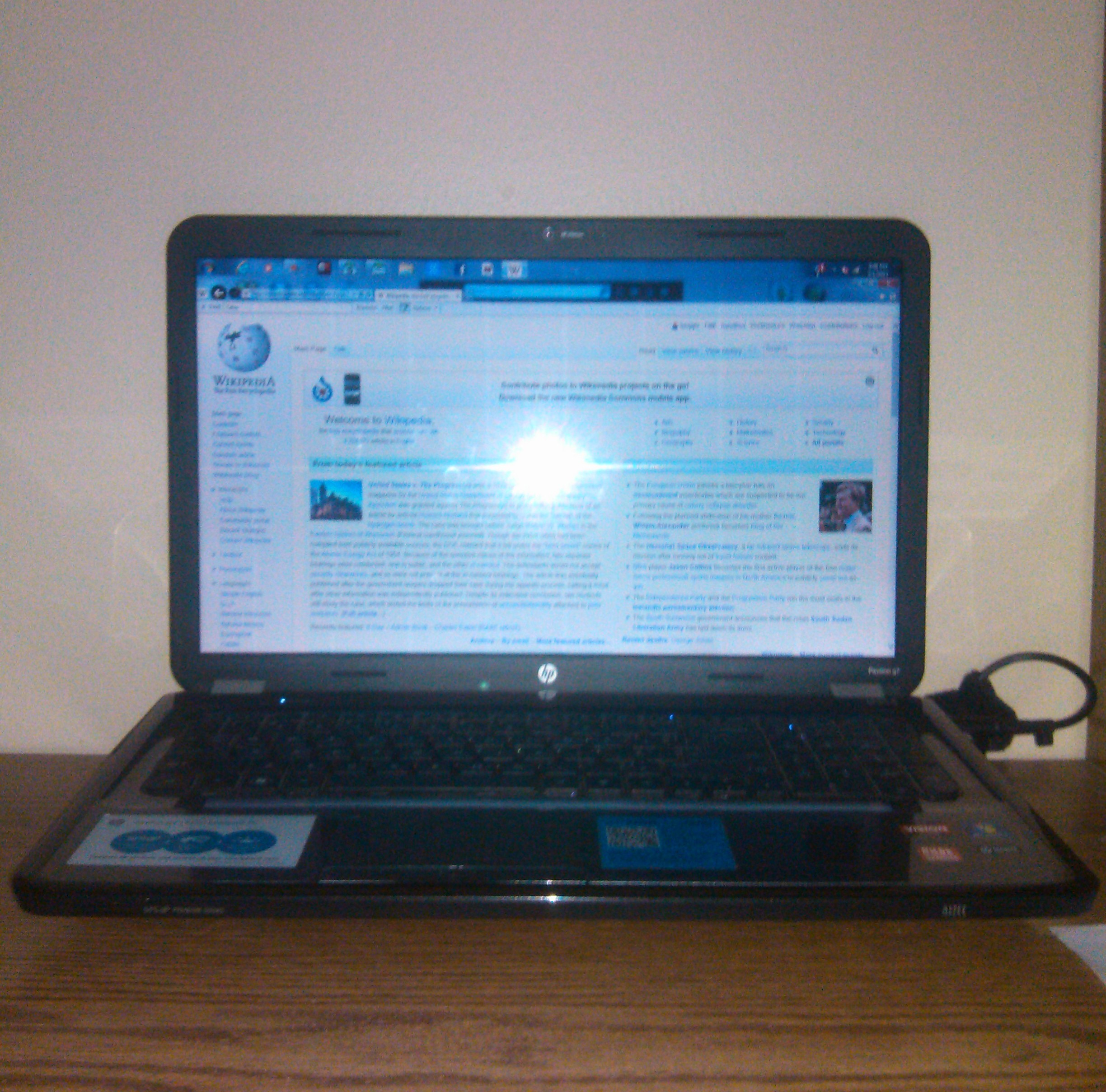 The desktop replacement laptop is showing wikipedia main page